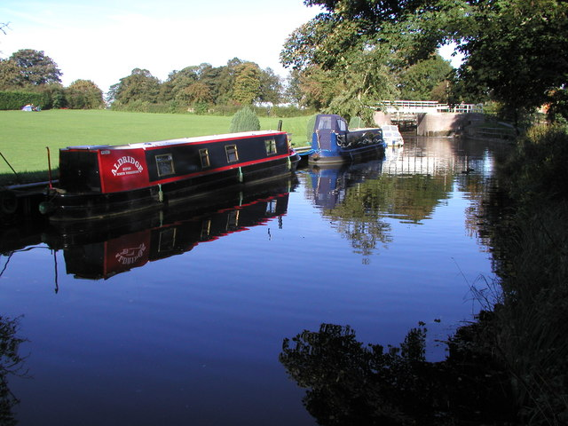 The Ripon Canal. Ripon, Yorkshire, Great Britain.